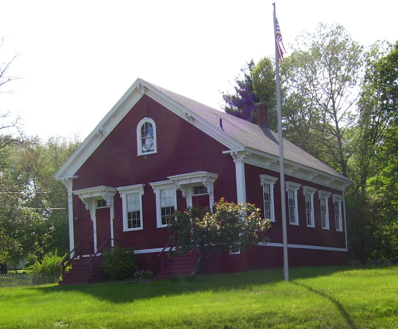 Forestdale RI school house from the 1800s.